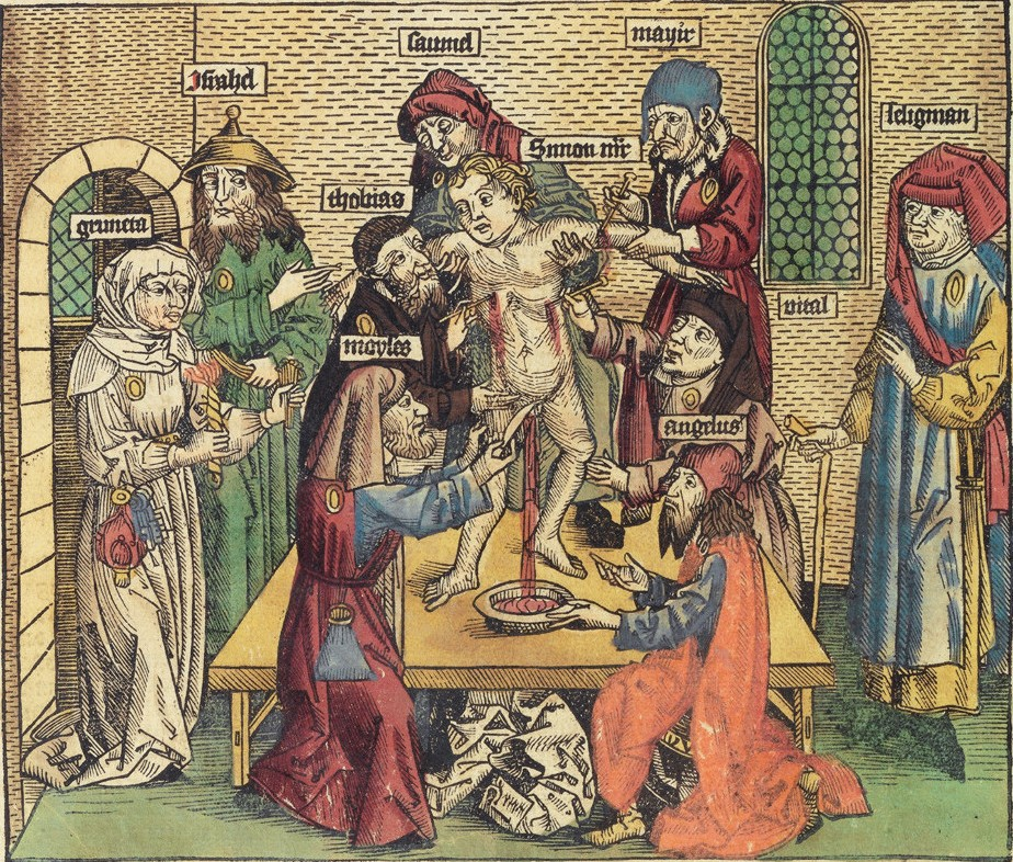 Martyrdom of Simon von Trent, depiction from the Nuremberg World Chronicle by Hartmann Schedel.